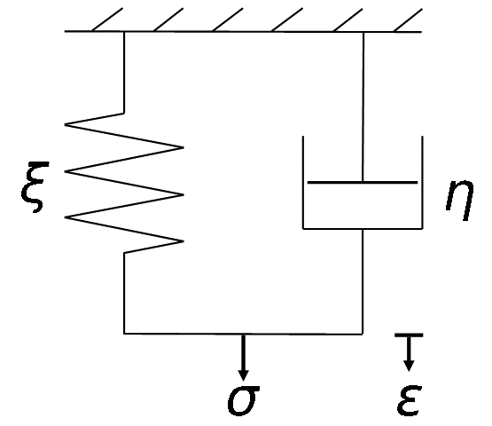 A very simple (and known) viscoelastic model named Kelvin or Voigt model used for DMTA theory.